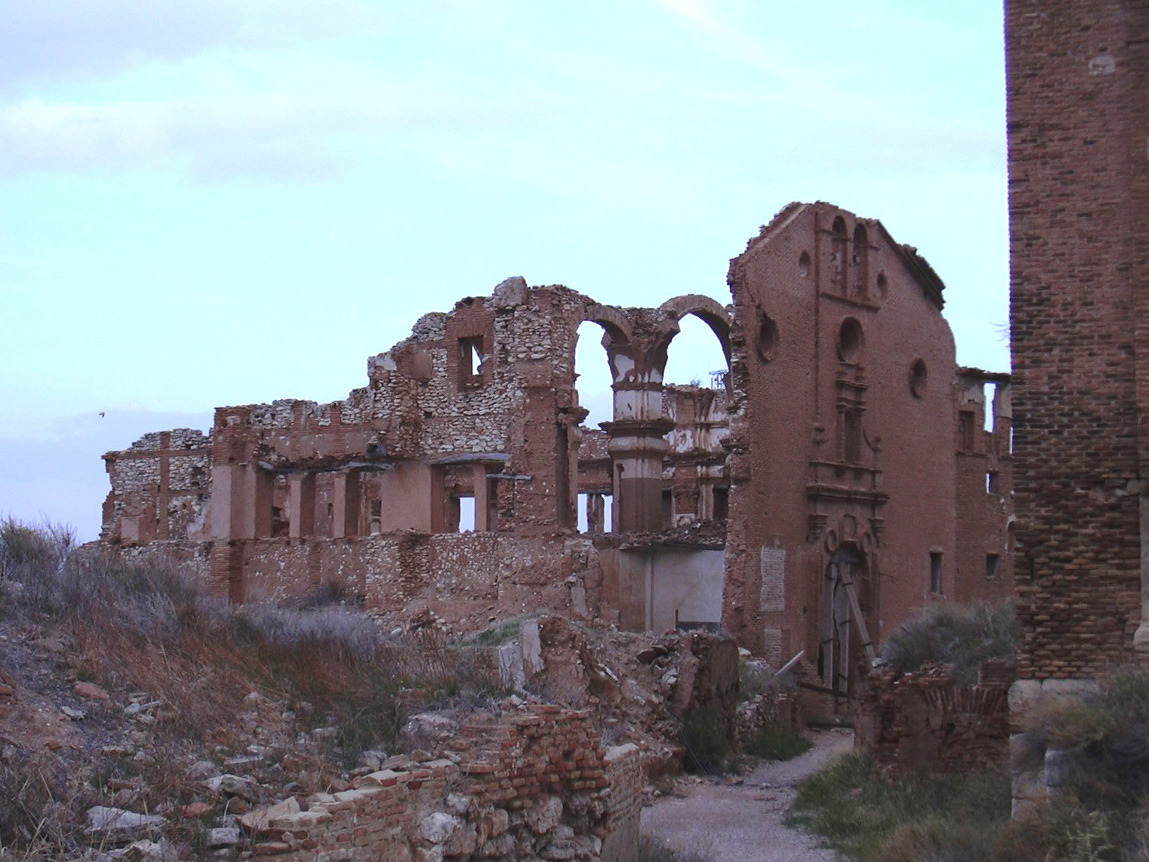 Belchite - Town in Aragon, Spain - Destroyed during the Spanish Civil War (1937), was not rebuild and stayed as monument